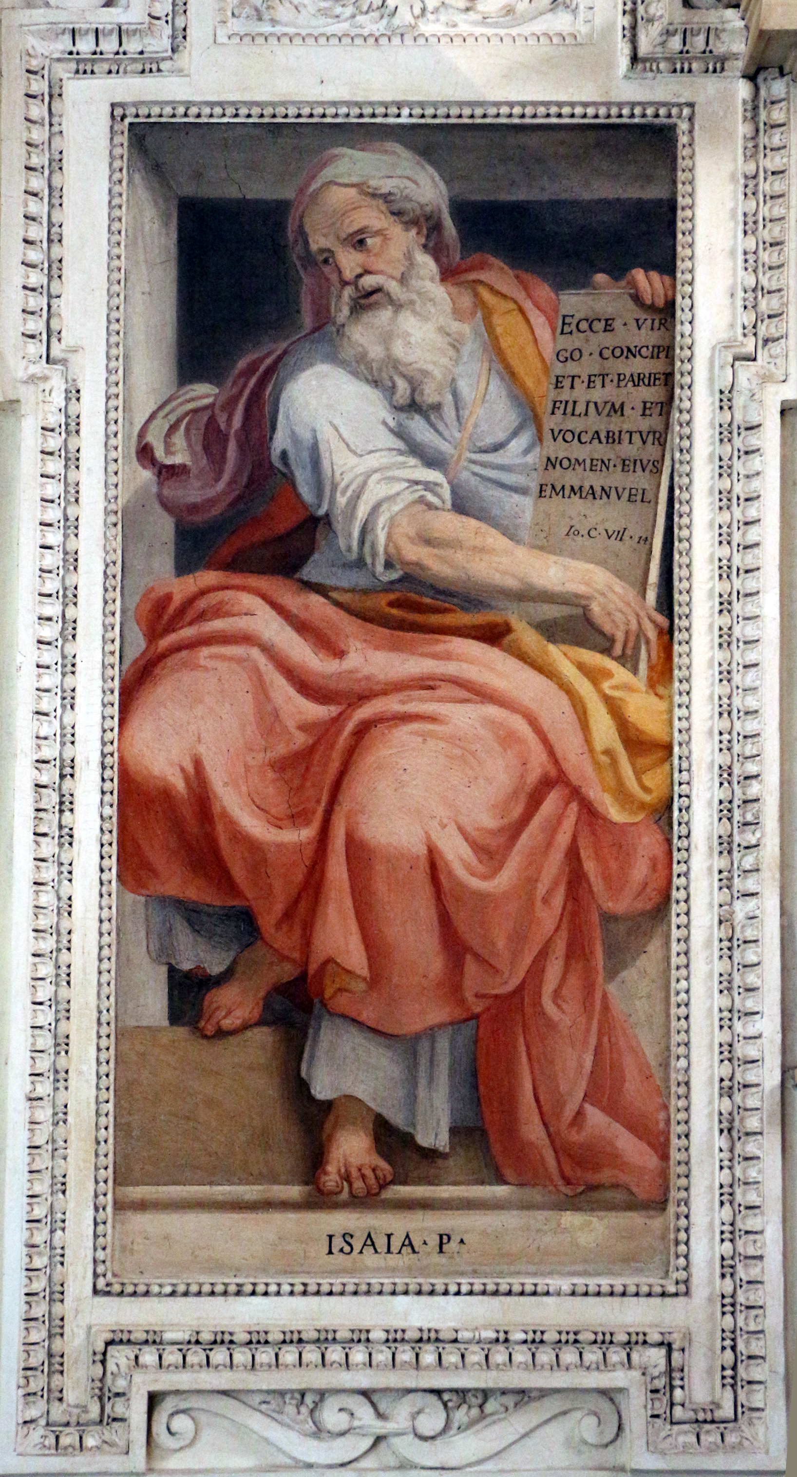 San Francesco a Ripa (Rome) - Interior